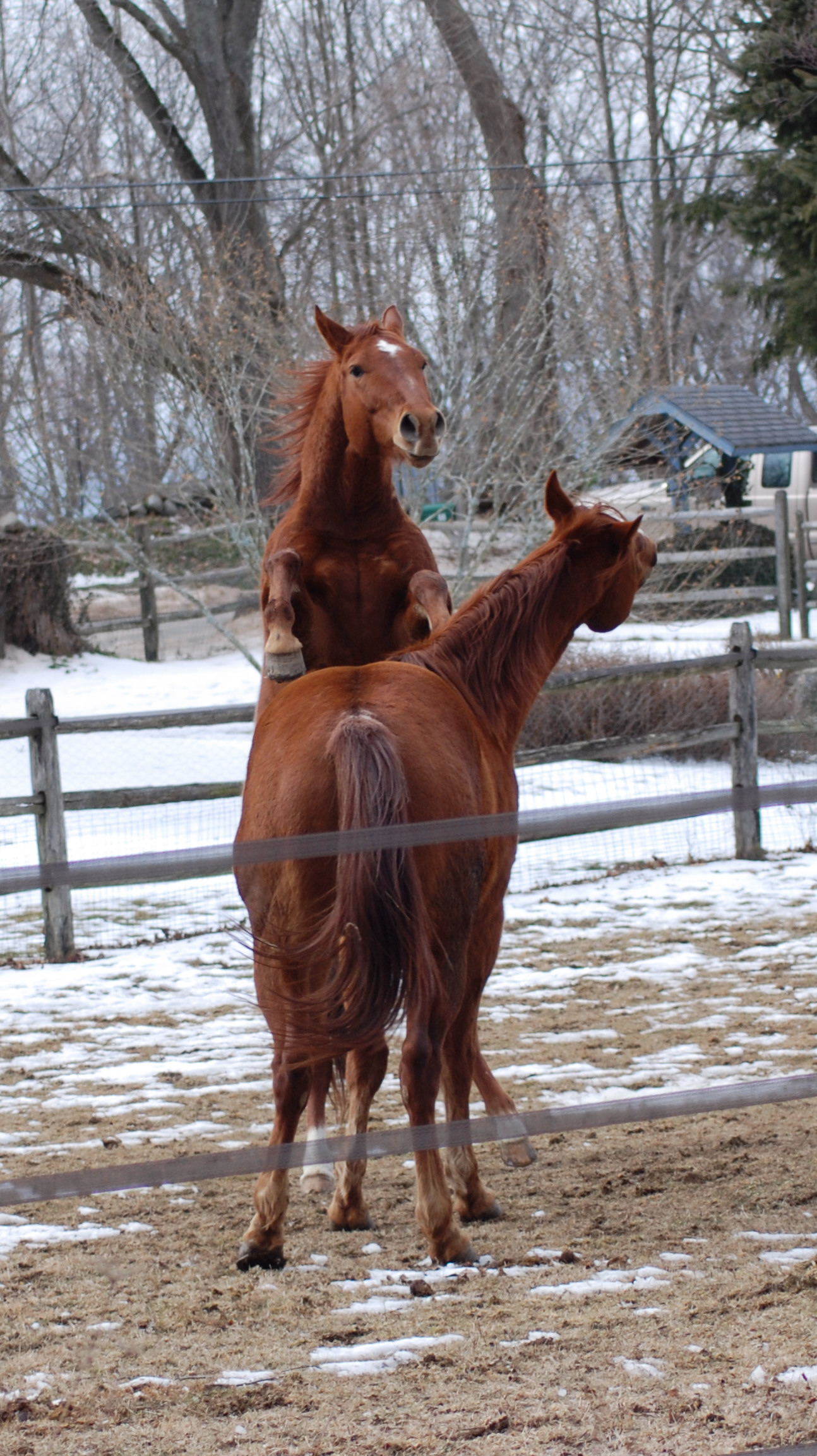 It seems one wanted to play, one didn't.